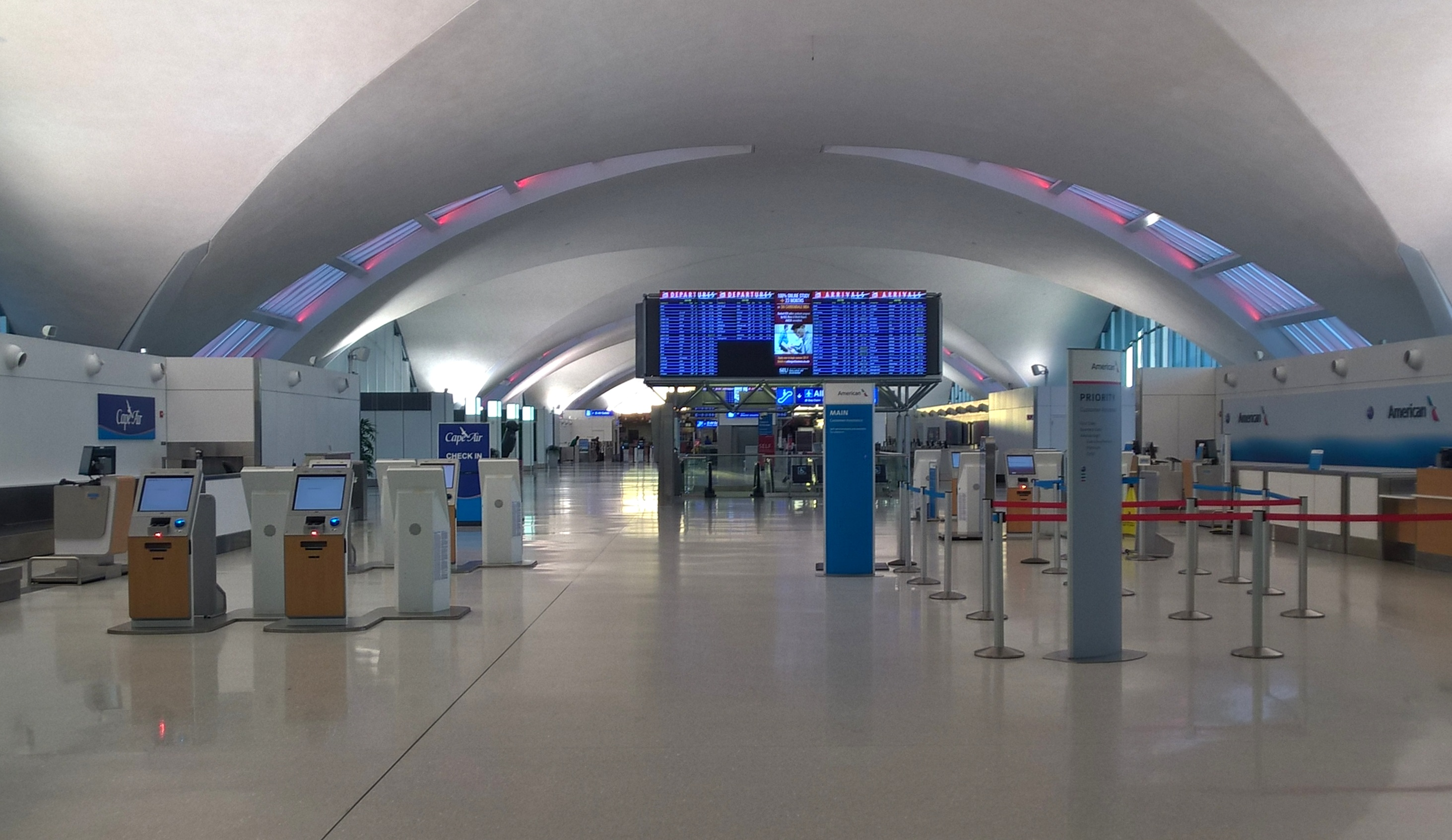 Ticketing hall at Lambert-St. Louis T1, June 6, 2017.